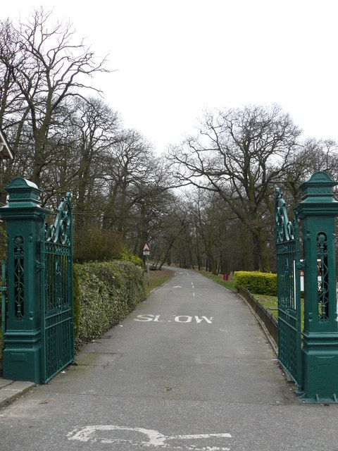 Grangewood Park Northern entrance to the park seen from Grange Road.